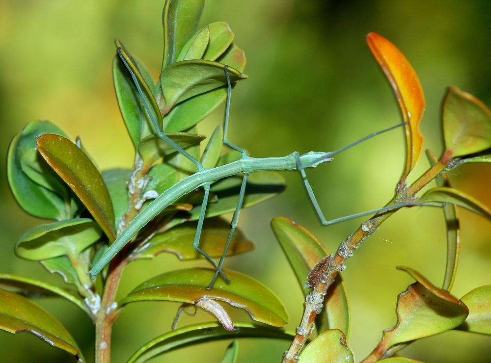 Spanish Walking Stick (Leptynia hispanica), Le Caylar, Languedoc-Roussillon, France